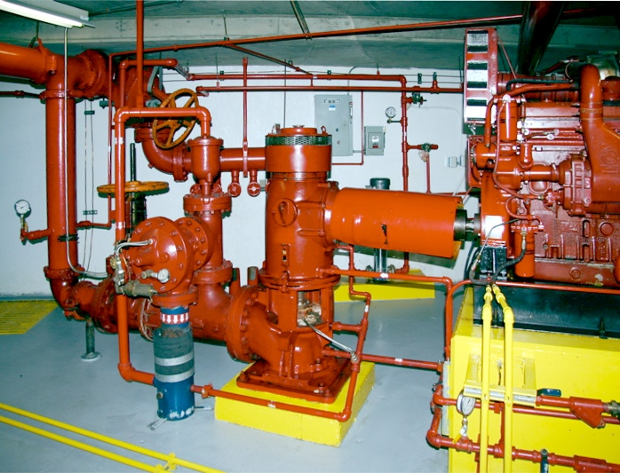 Author: Todd A Stephens